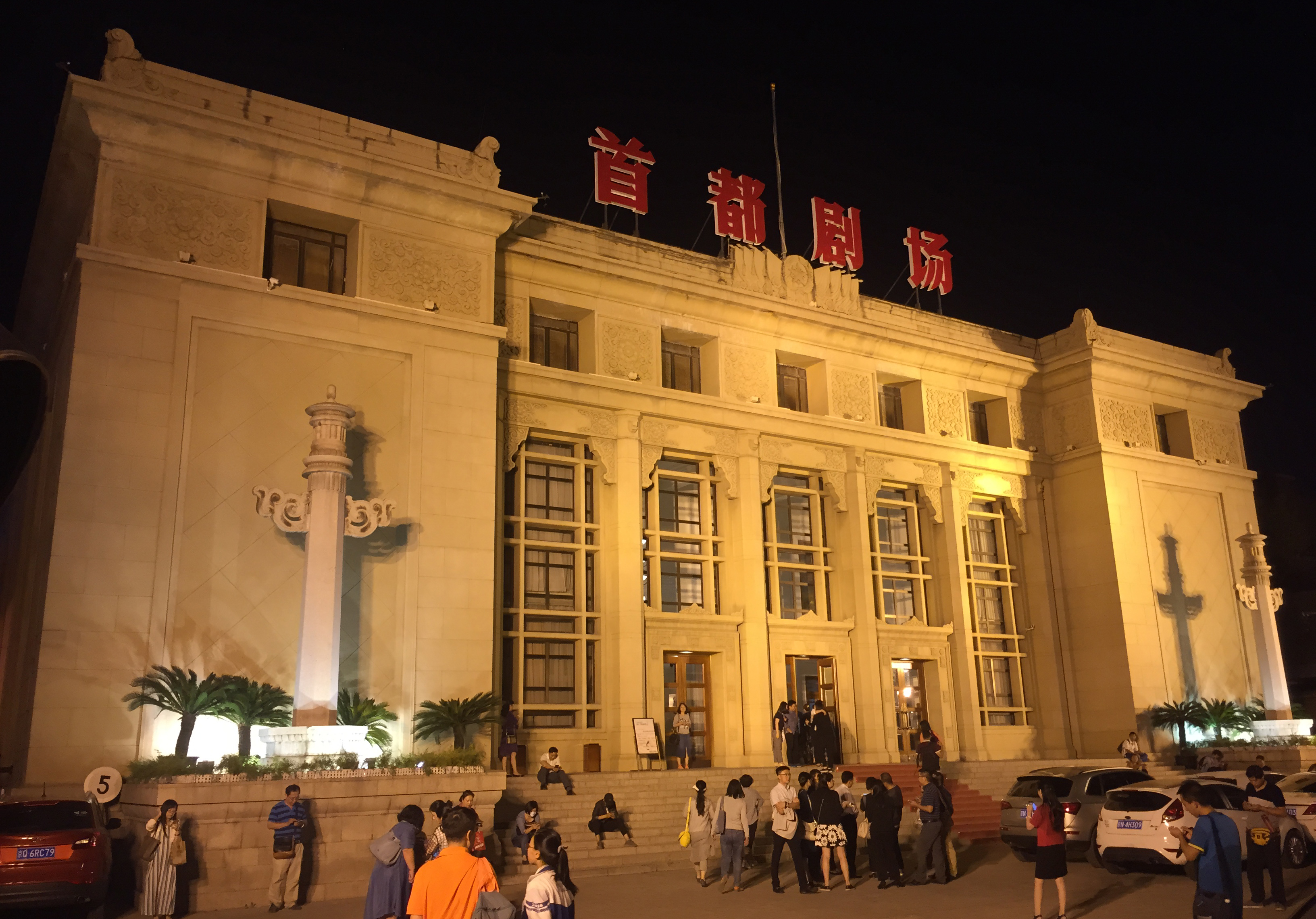 Going for the play Guan Hanqing.